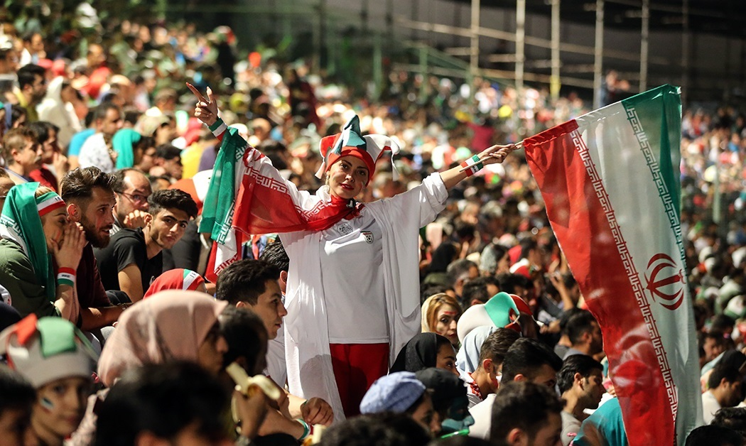 People watching Iran-Portugal match at 2018 FIFA World Cup in Azadi Stadium